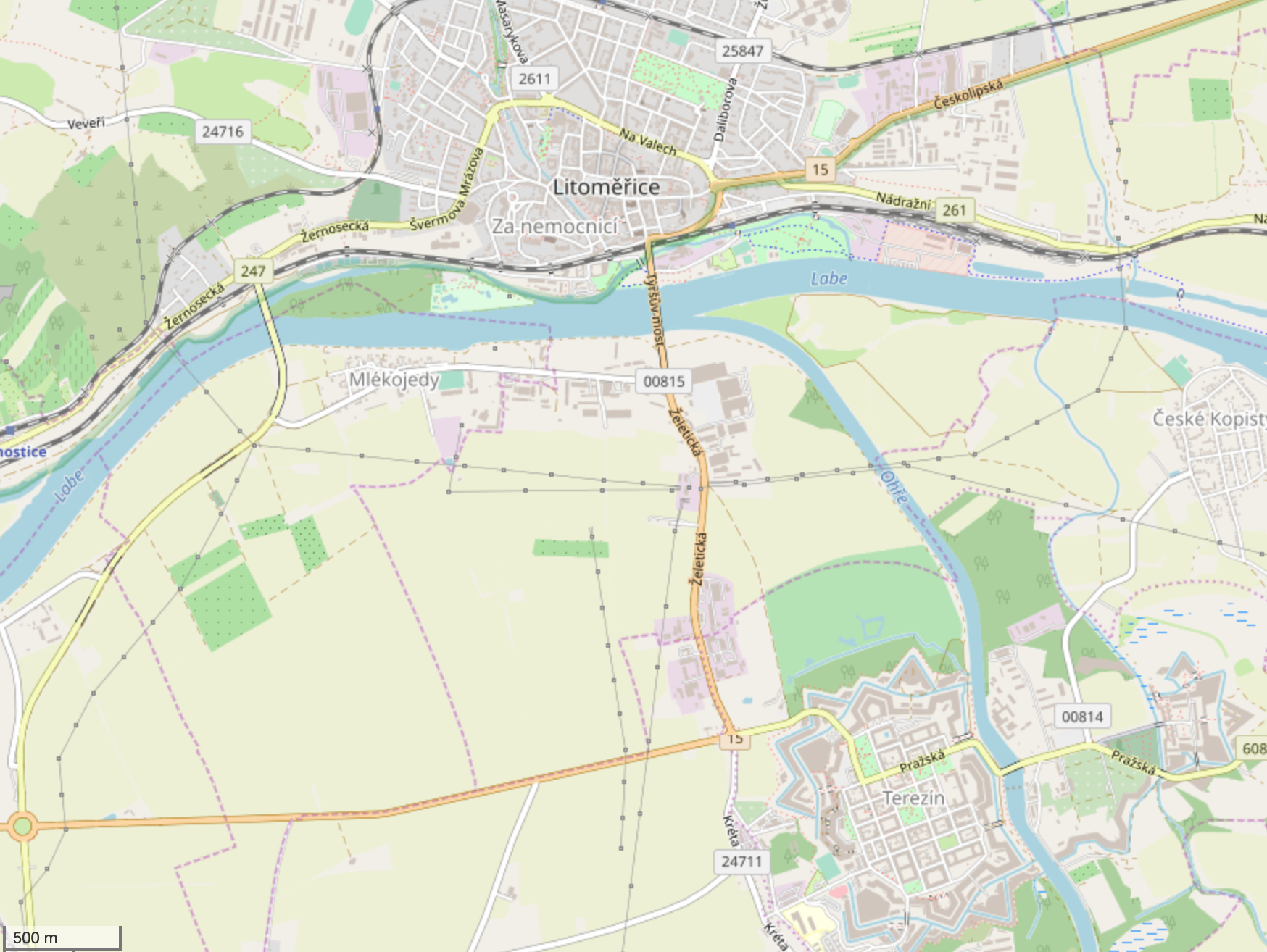 Image of Litoměřice and Terezín This map may be incomplete, and may contain errors. Don't rely solely on it for navigation.